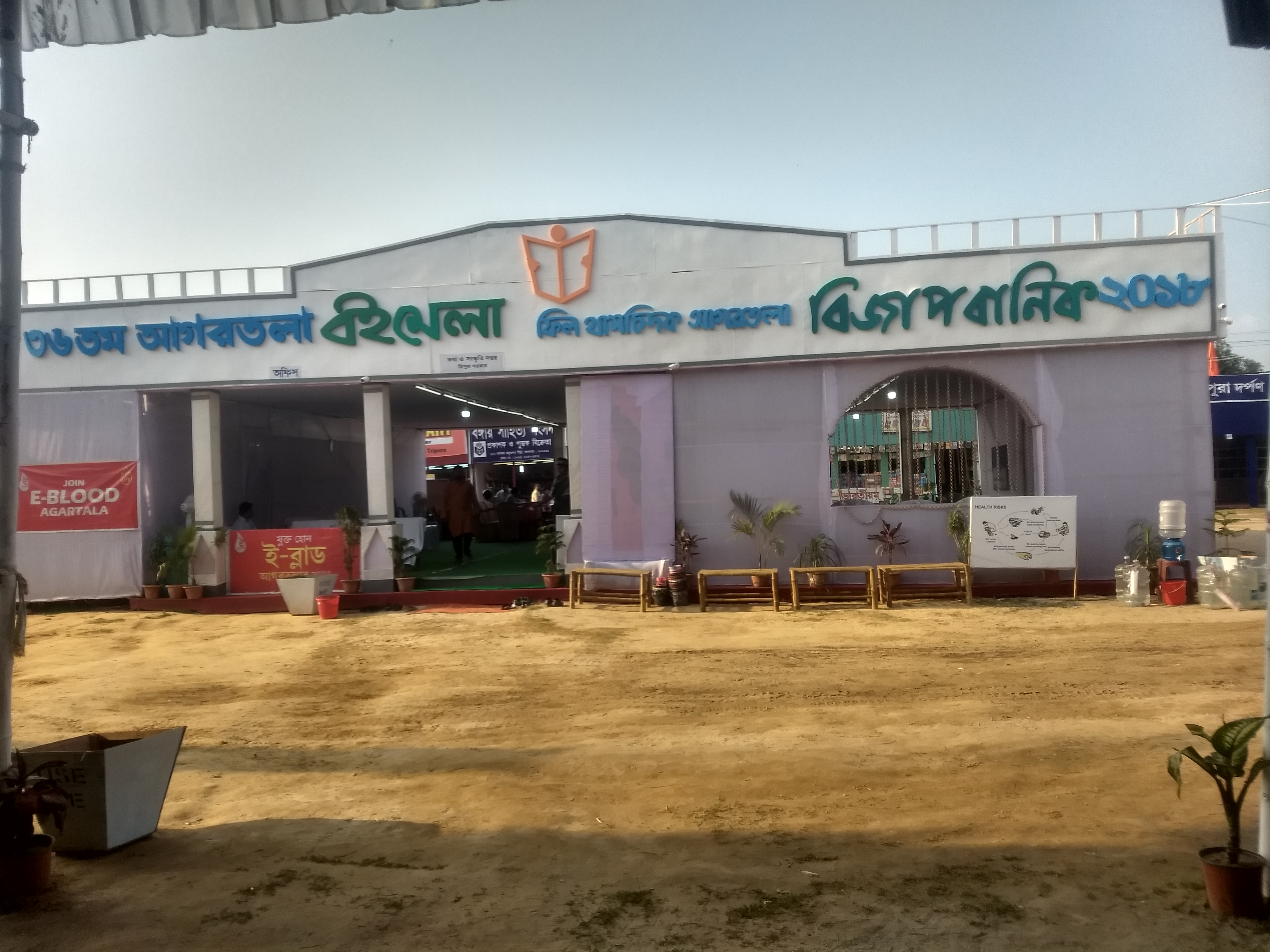 AGARTALA BOOK FAIR 2018